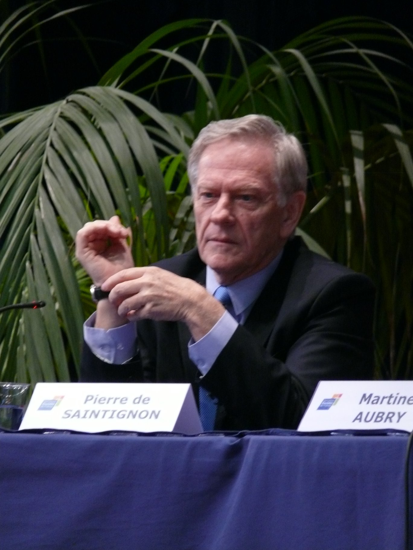 Pierre de Saintignon at the Semaines Sociales de France 2014 at Université Catholique de Lille (Nord, France).